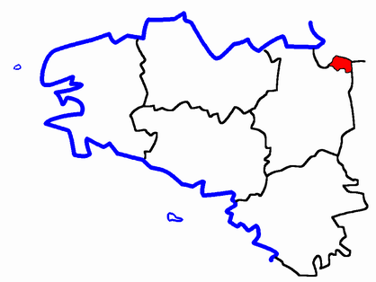 Description: Map for localisazion of cantons of Bretagne region in France Source: made by Hervé Tigier from another large map